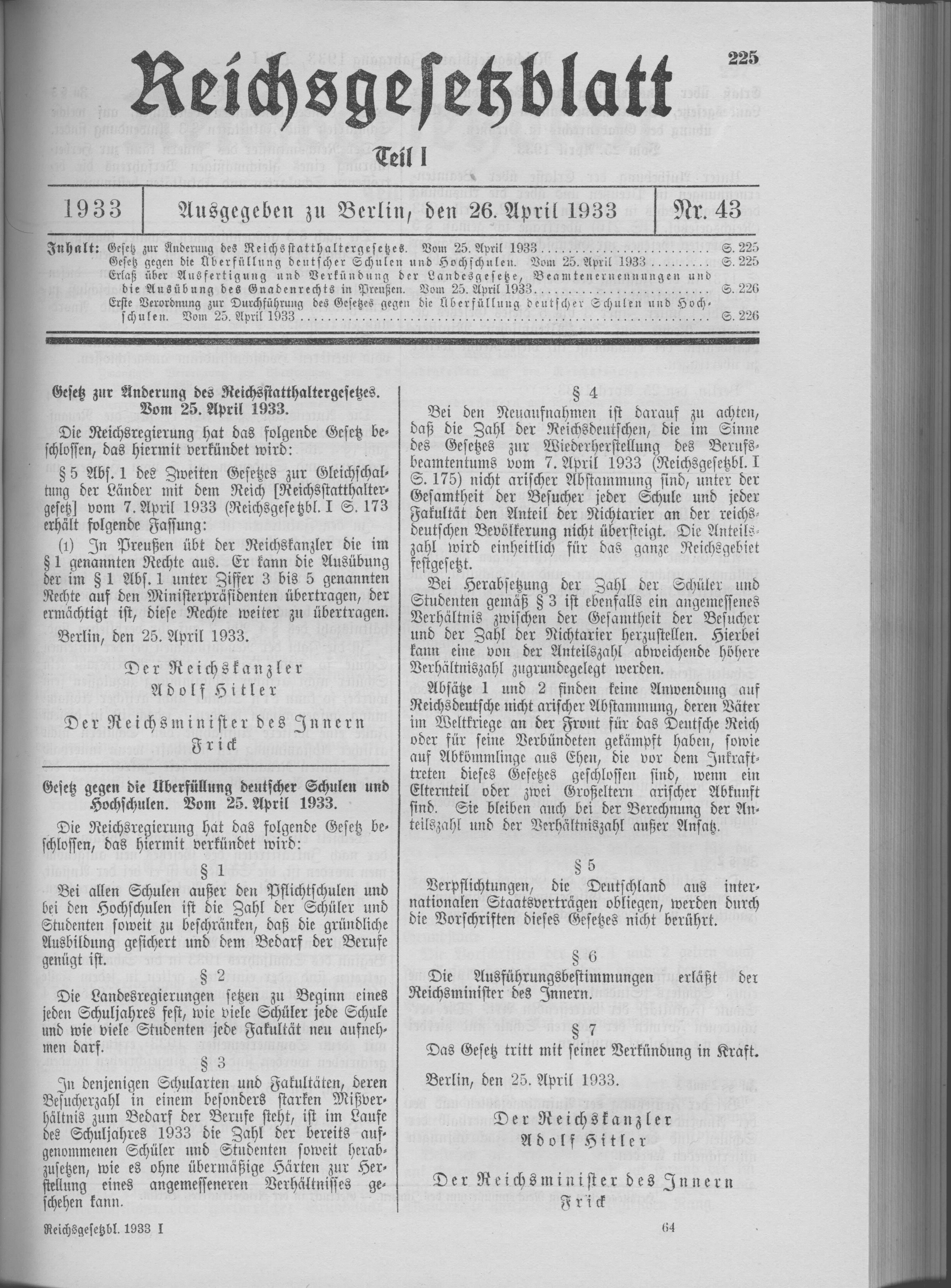 Scan from the Imperial Law Gazette of Germany, 1933, part 1